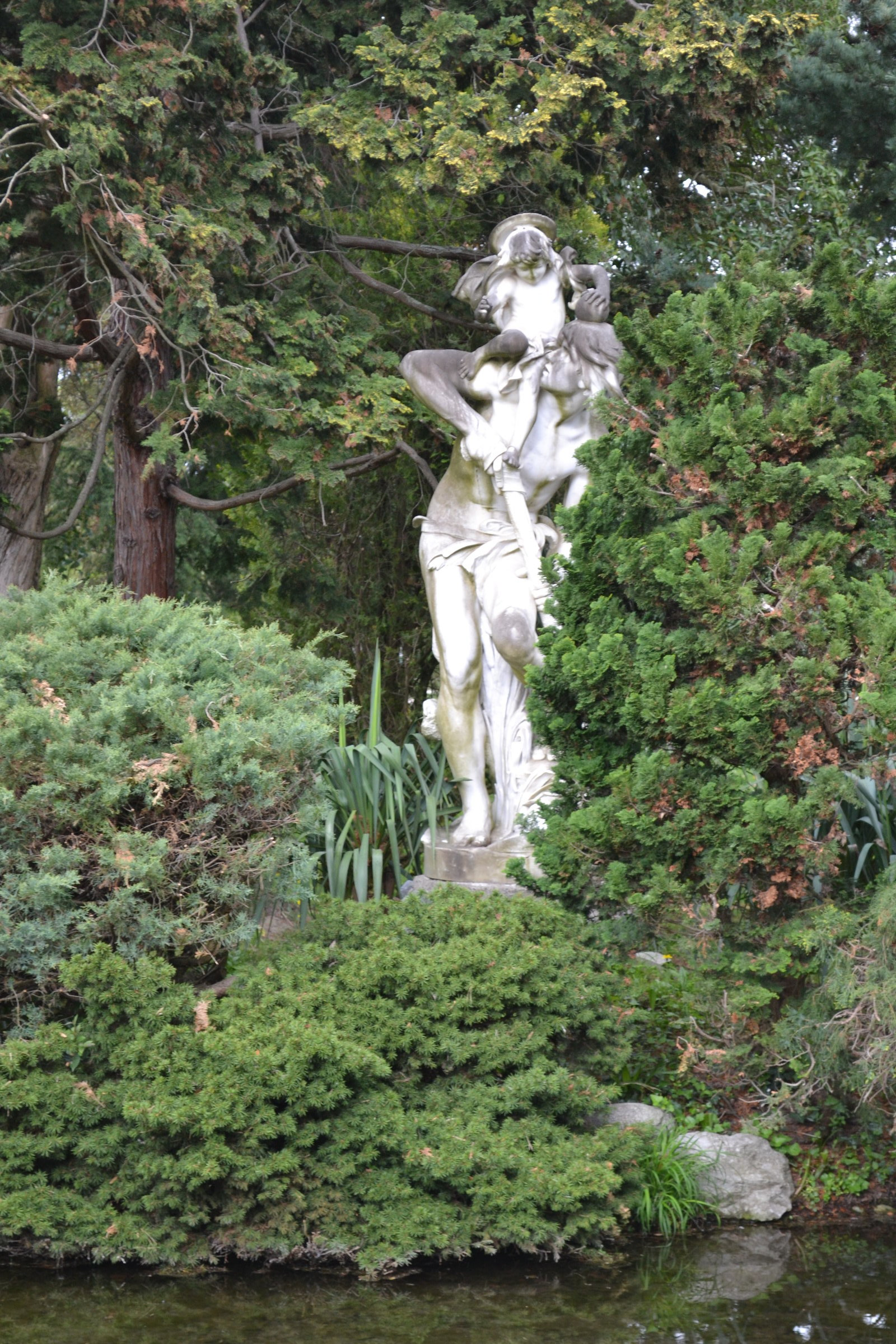 Saint Christopher statue in Tarbes Jardin Massey.